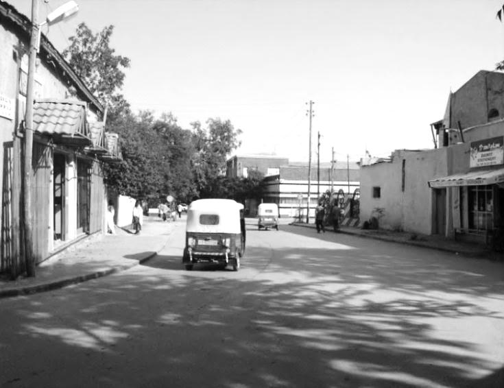 መርሻ ናሁሰናይ መንገድ (ከዚራ ፤ድሬዳዋ)